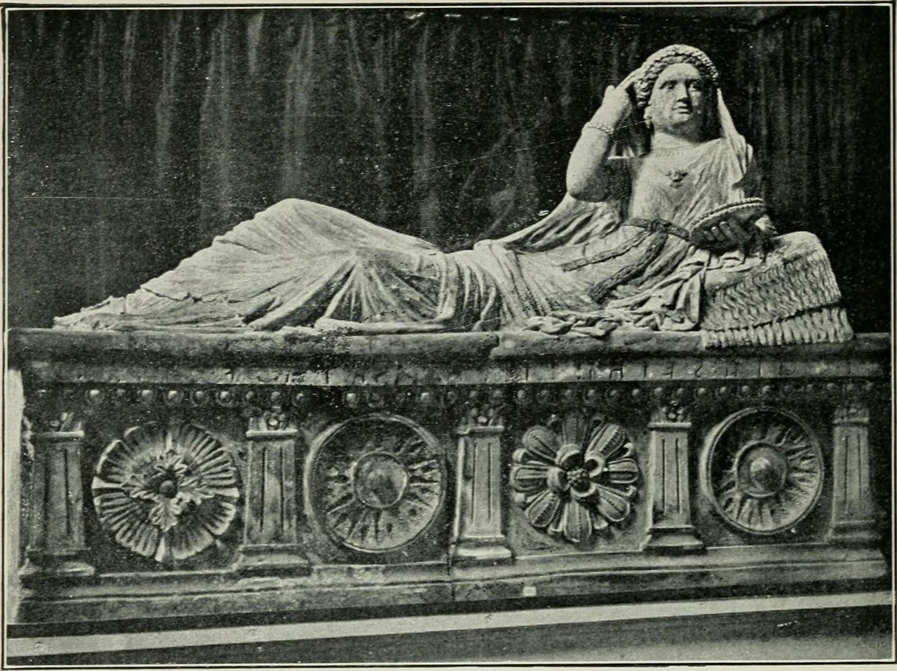 Title: Roman cities in Italy and Dalmatia Year: 1910 (1910s) Authors: Frothingham, Arthur L. (Arthur Lincoln), 1859-1923 Subjects: Cities and towns, Ancient Cities and towns -- Italy Architecture, Roman Italy -- Antiquities Dalmatia (Croatia) -- Antiquities Publisher: New York, Sturgis & Walton Company Text Appearing Before Image: Roman. Thetwo heads of protecting genii that project fromthe spandrels of the arch appear on representa-tions of Etruscan gates on the urns and sar-cophagi and are paralleled in the Etruscan gateof Volterra; they also are not Roman. The falsegallery or frieze of psuedo-Ionic pilasters withshields or rosettes occupying the intervals is oneof the commonest forms of decoration on Etrus-can urns and sarcophagi. The upper galleryfilled with defenders of the gate can be seen onmore than one carved representation of a citygate on Etruscan urns. This covers every feature of the gate. Notone appears on a Roman gate except as a deriva-tive from Etruscan sources; every one occurs onEtruscan works of the fourth to second centuriesB.C. Of course Etruscan gates had no inscrip-tions and provided no place for any, and nobetter proof of the pre-Roman constructioncould be asked than the fact that when Augustusset his seal on the reconstructed city and wishedto christen it anew after himself as Augusta Text Appearing After Image: Etruscan Sarcophagus of Larthia Seiauti (Florence) with detailssimilar to Arco dAugust© and Porta Marzia